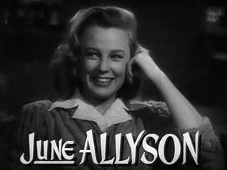 Cropped screenshot of June Allyson from the film Her Highness and the Bellboy